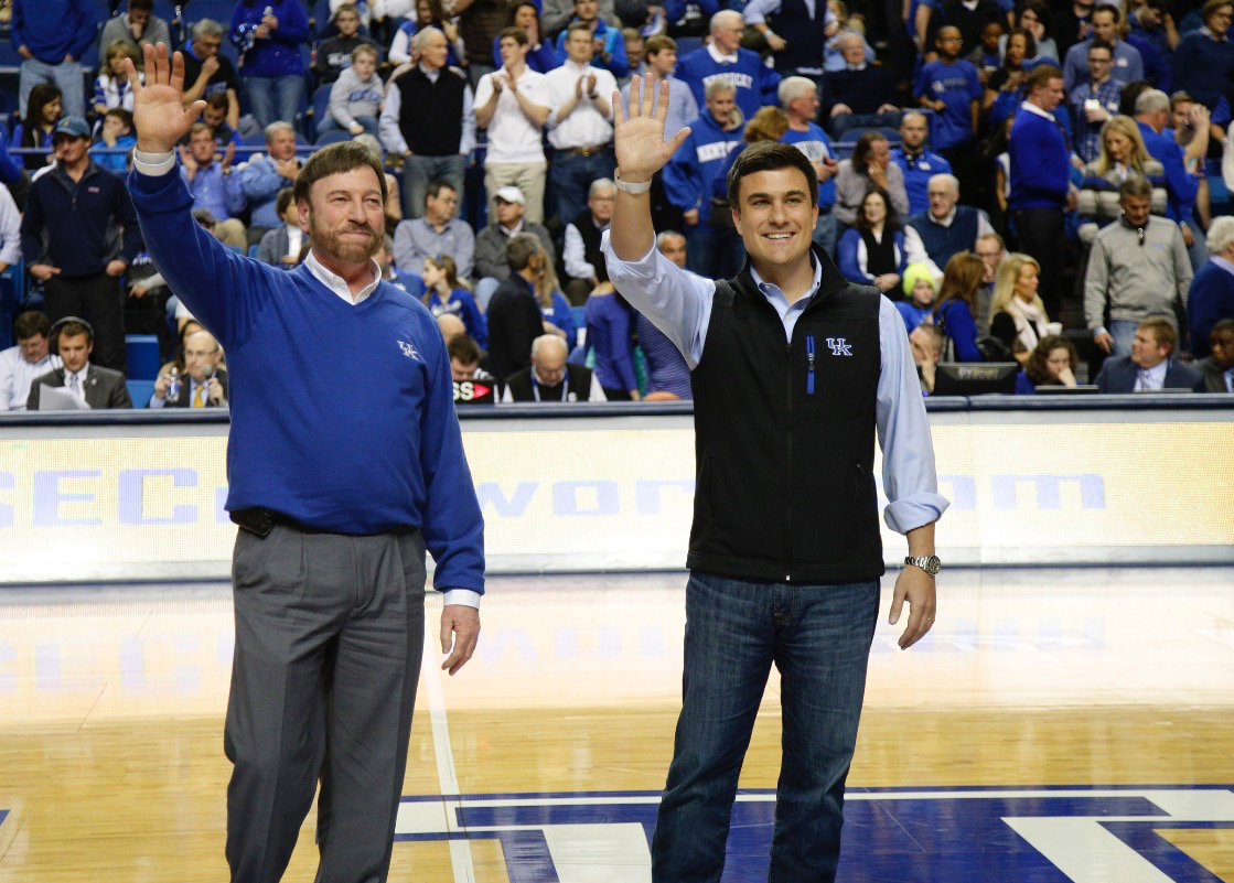 Kentucky businessmen Jim Booth (left) and Nate Morris (right) are recognized at a University of Kentucky basketball game in 2014.